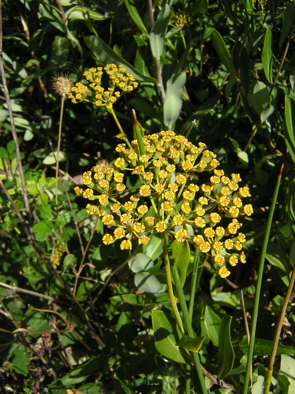 Bupleurum fruticosum, flowers Source : [1]